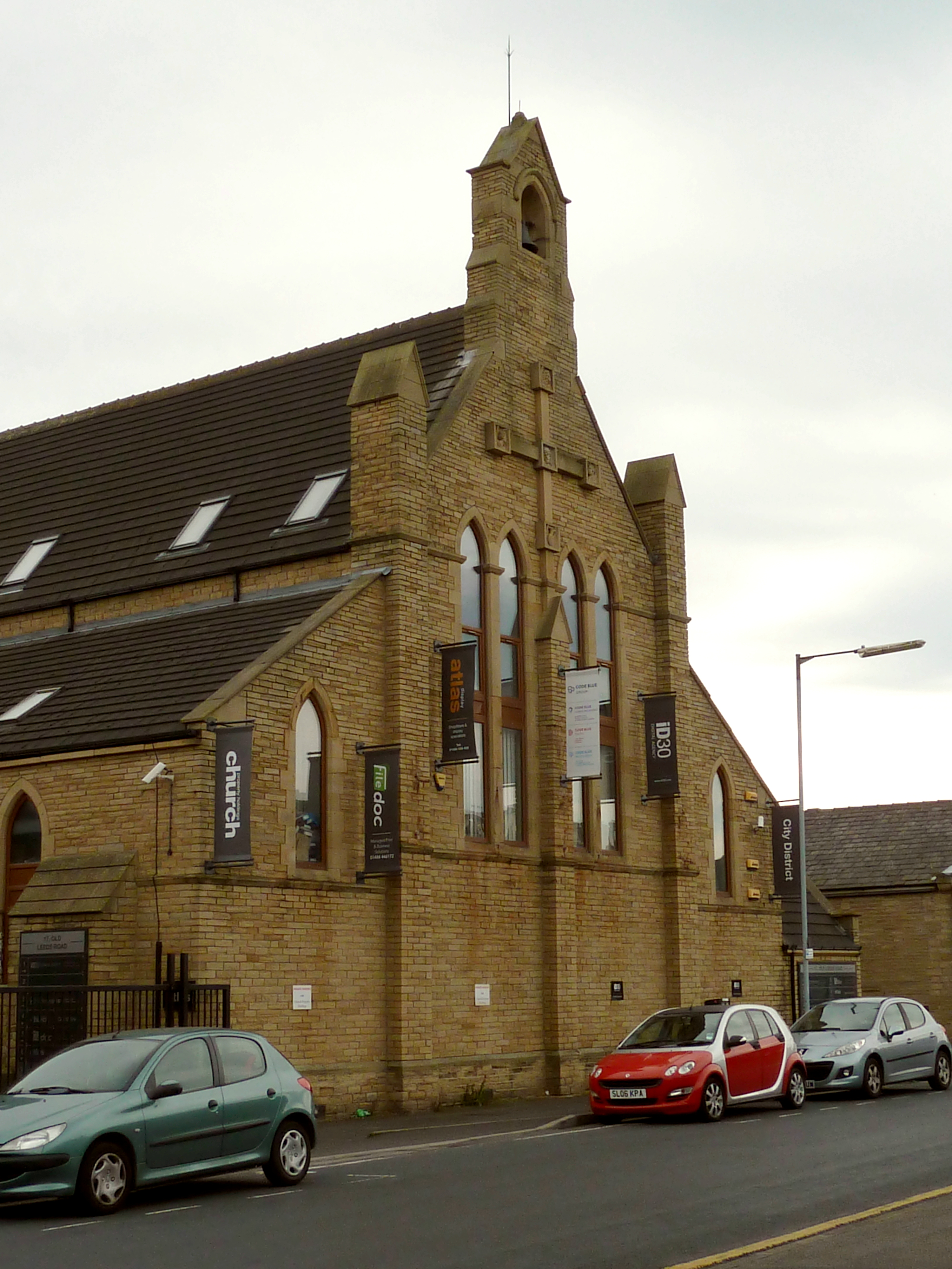 Former Church of St Mark, Old Leeds Road, Huddersfield, North Yorkshire, England. Built 1887, designed by architect William Swinden Barber. West wall viewed from north-west.